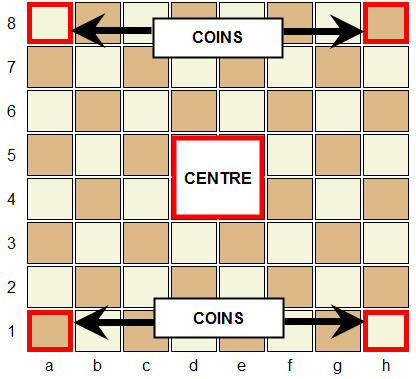 corner and centre in chess